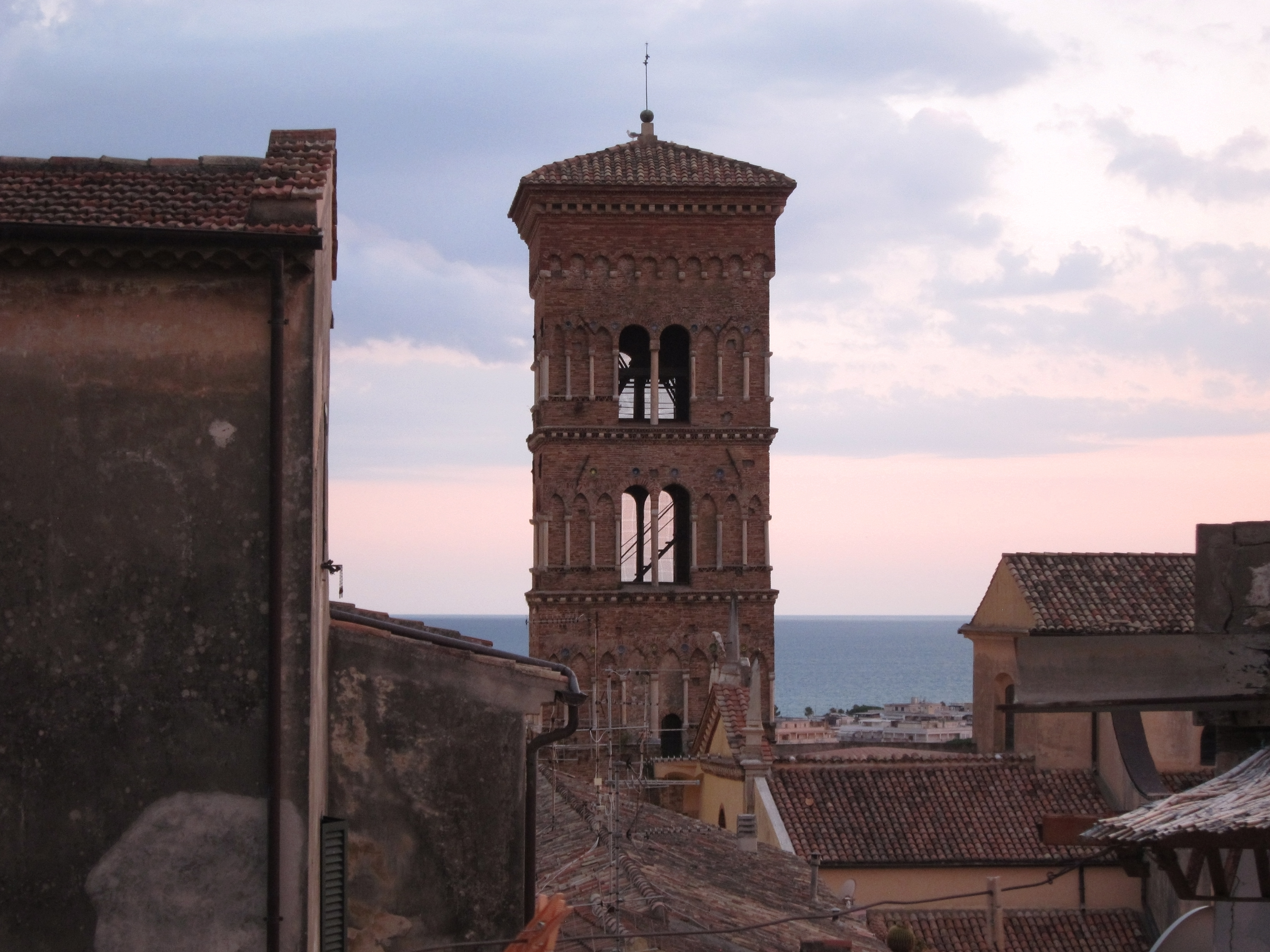 The bell tower (campanile) of the Cathedral of Terracina called "Cattedrale di san Cesareo". The church is located in the urban square Piazza Municipio in the old town of Terracina municipality, Lazio region, Italy. The picture is taken on the 17th of July in 2020.